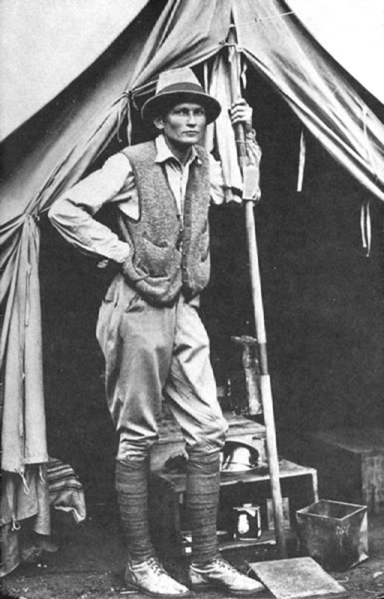 Photo of Hiram Bingham III at his tent door near Machu Picchu in 1912.